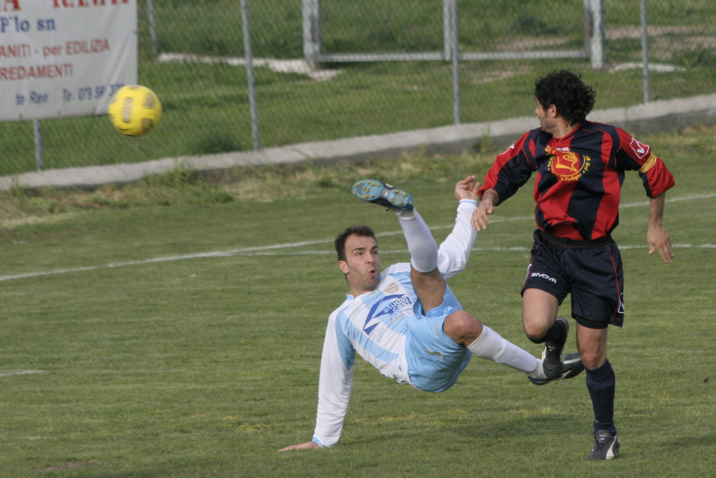 Bicycle kick in amateur tournament, Italy